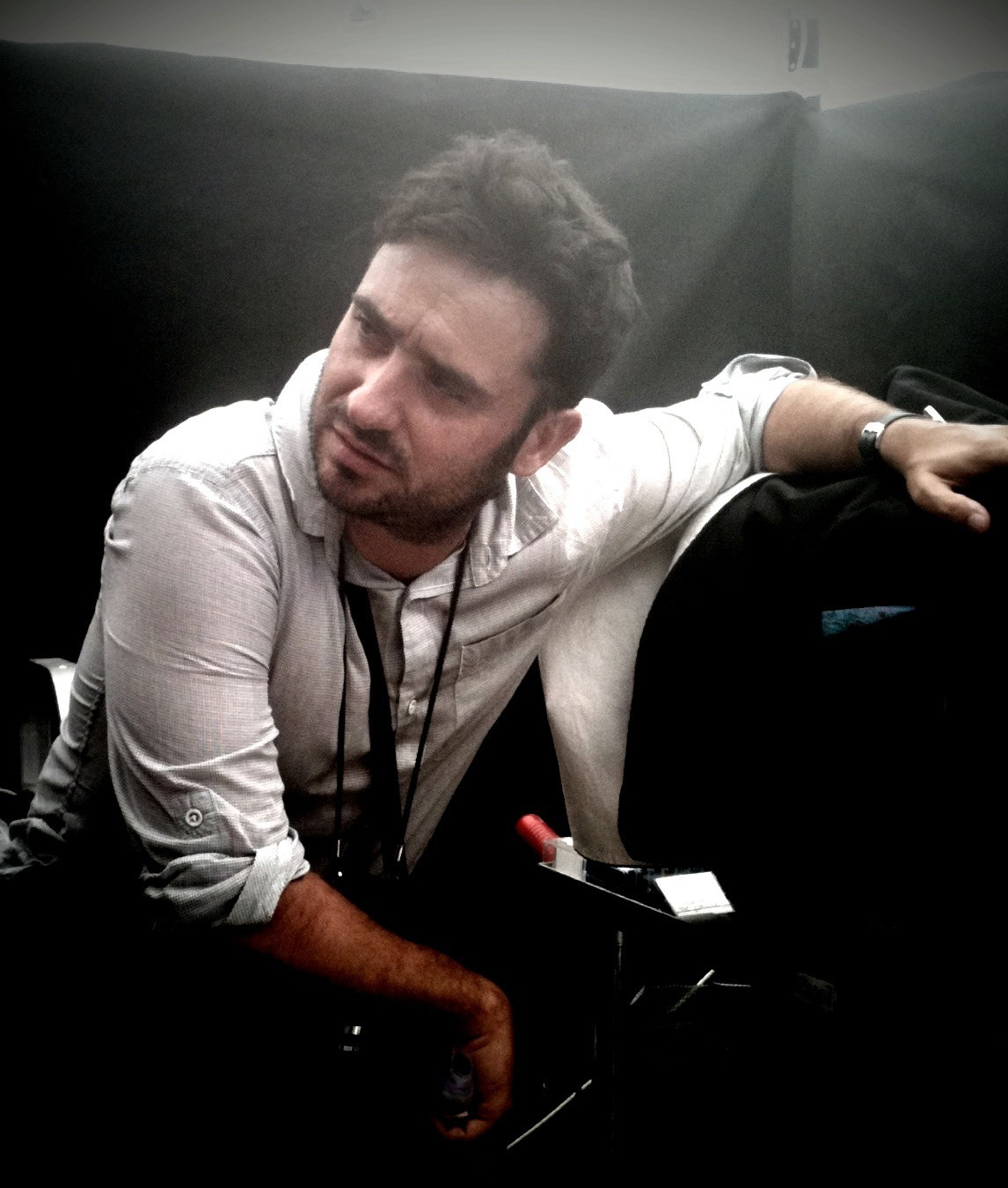 J. A. Bayona portrait